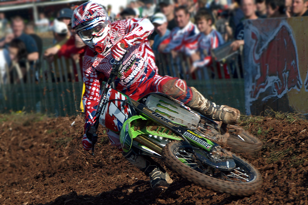 James Stewart (USA, Kawasaki) at Red Bull FIM Motocross of Nations 2008, in Donington Park (England)